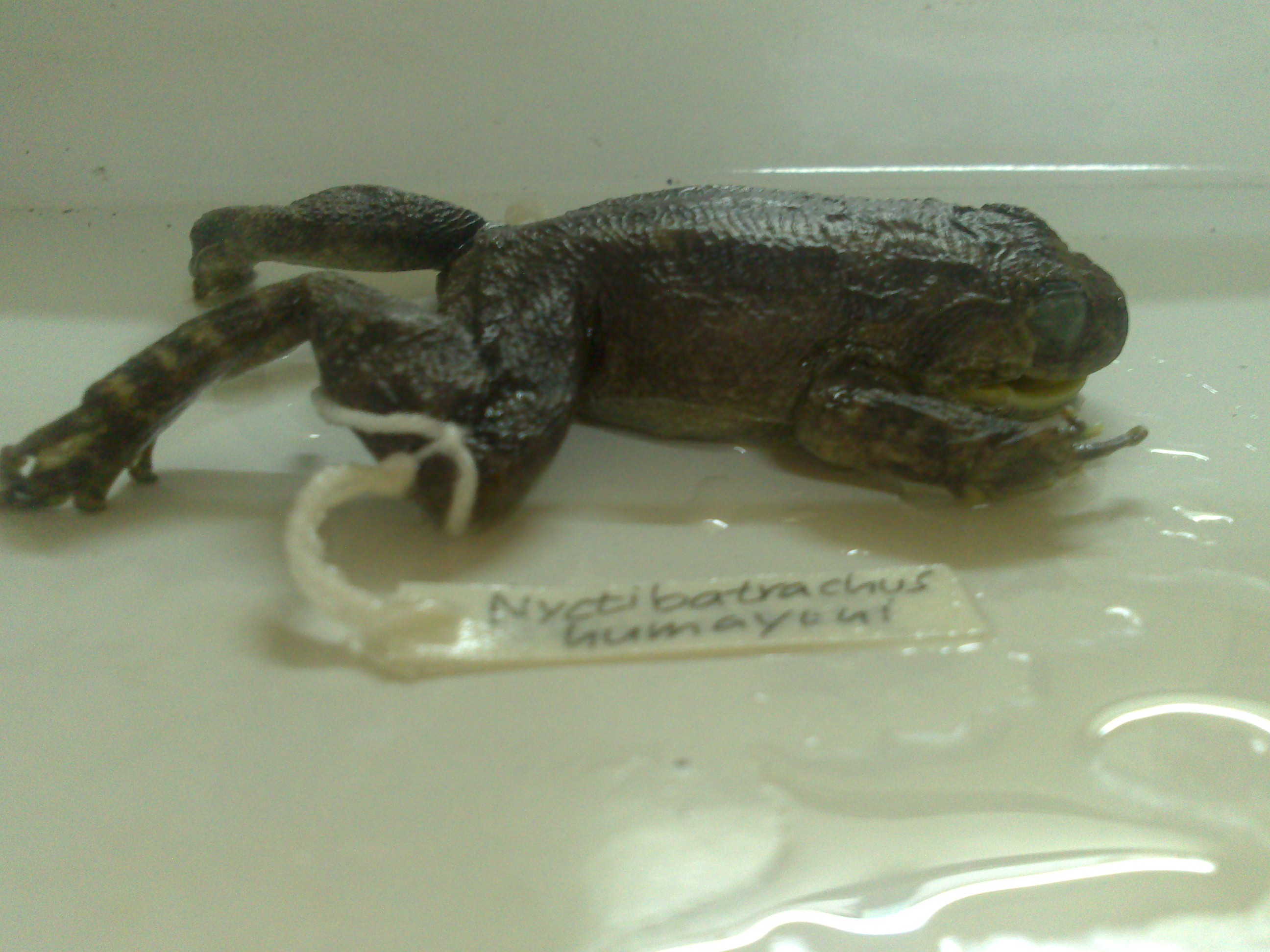 Nyctibatrachus humayuni, or the Bombay night frog, named for Humayun Abdulali, an Indian naturalist. This specimen is present in the specimens collection of the Bombay Natural History Society, Mumbai.